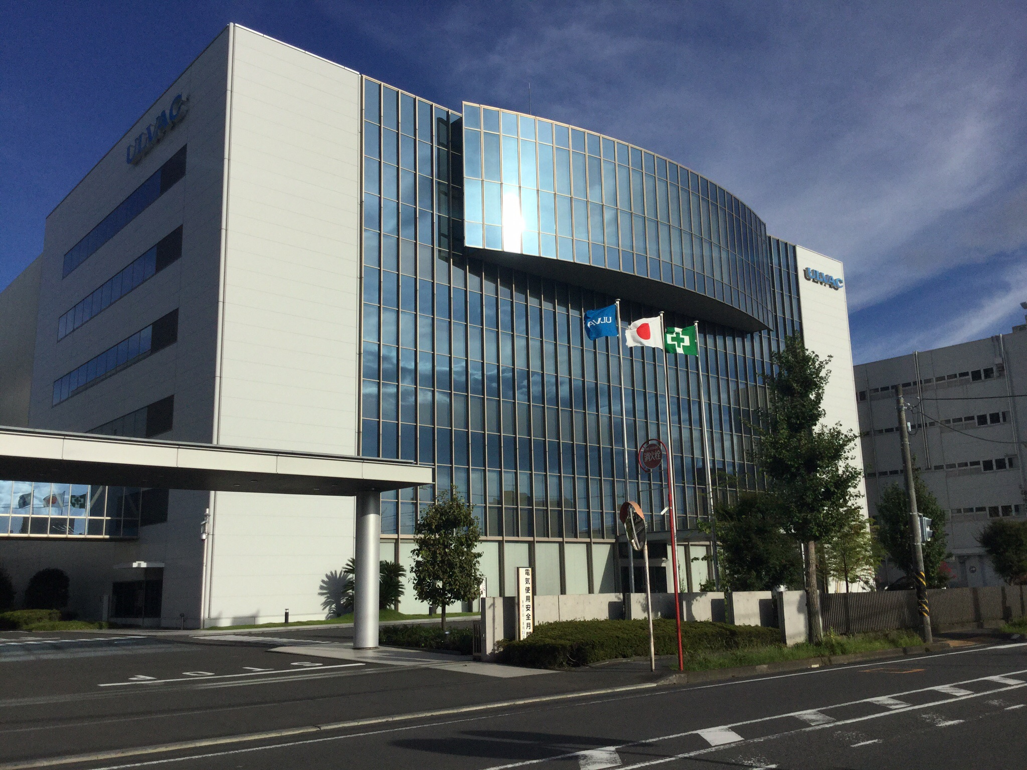 The head office of ULVAC,Inc.